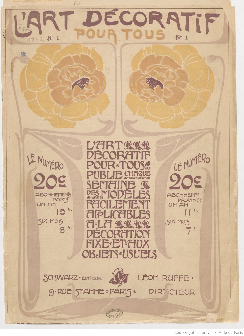 Front cover of L'Art décoratif pour tous issue 1, March 1902, french magazine published by Schwarz in Paris from 1902 to 1904 [?]. Dir. : Léon Ruffe.